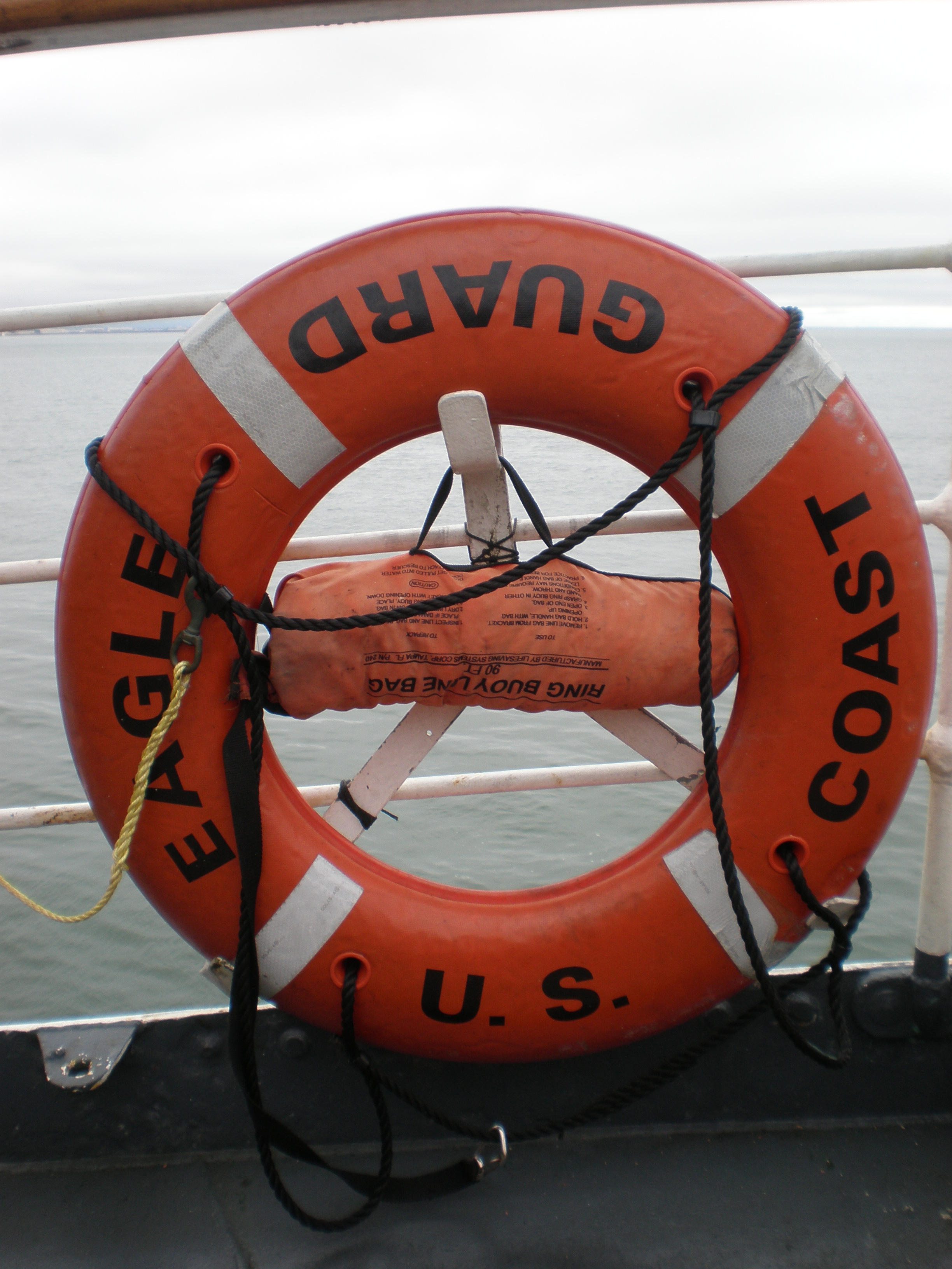 A life preserver on the USCGC Eagle (WIX-327), seen while the Eagle was docked during the Festival of Sail San Francisco 2008.